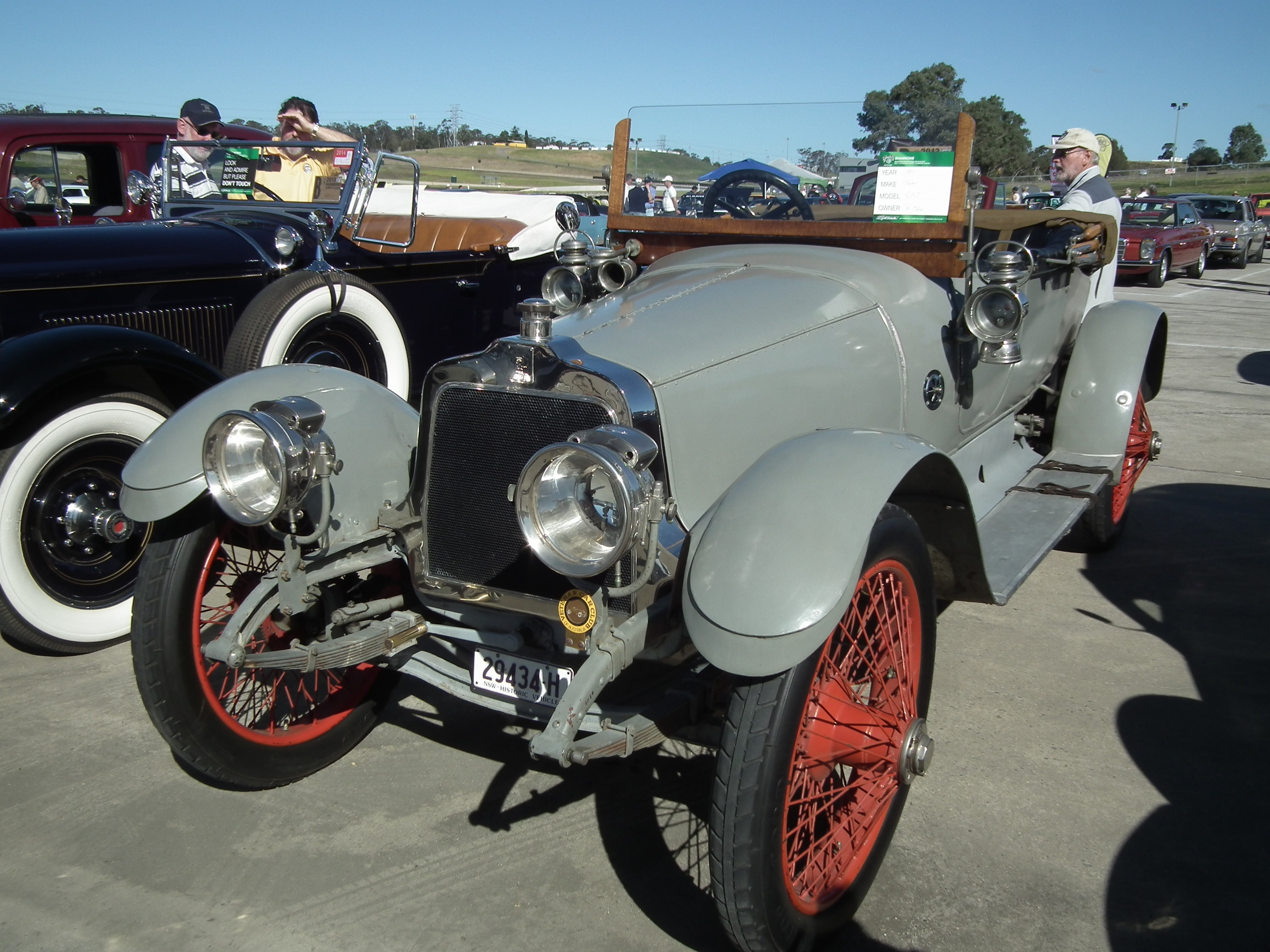 1910 Talbot 6AS roadster. Taken at the 2013 Shannon's Eastern Creek Classic display day, held at Sydney Motorsport Park.